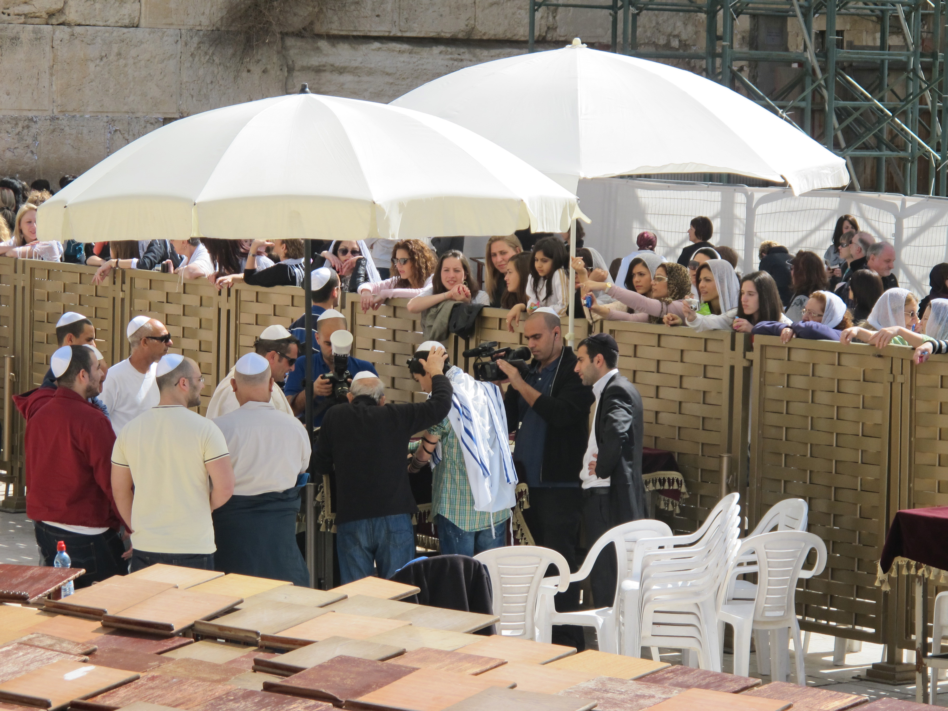 The Western Wall (also known as the Wailing Wall) of the Temple Mount is a popular site for bar and bat mitzvahs on Mondays and Thursdays (we were there on a Thursday). Men and women are separated at the Western Wall, but holding the bar mitzvah ceremony next to the dividing fence gives women the chance to watch. On Google Earth: Western Wall 31°46'36.33"N, 35°14'3.83"E Dome of the Rock on the Temple Mount 31°46'40.92"N, 35°14'7.50"E Palestine. 20110224 0318 Jerusalem (5539881465).jpg